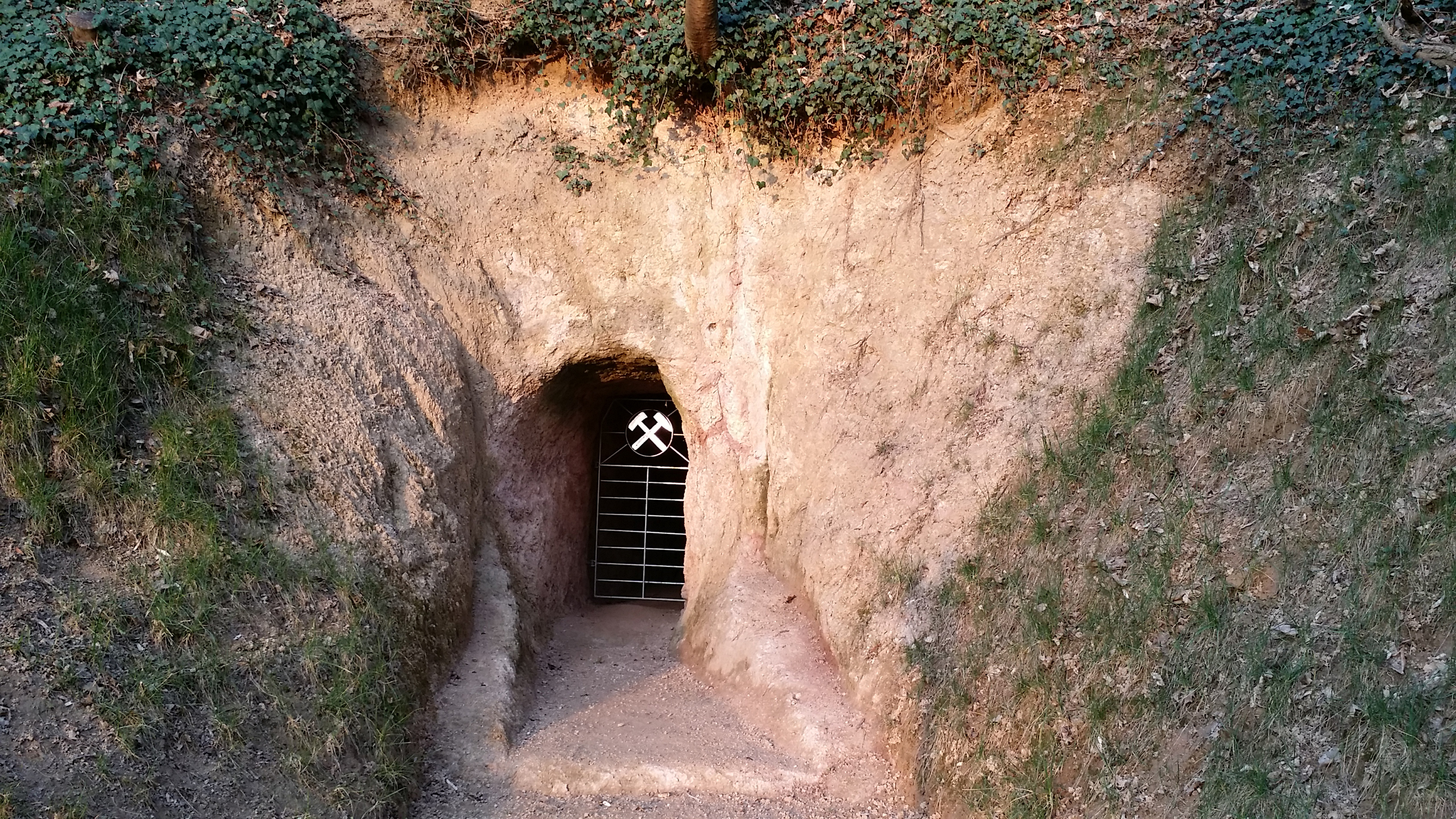 Beltzhohl adit, near Hirschberg-Großsachsen.